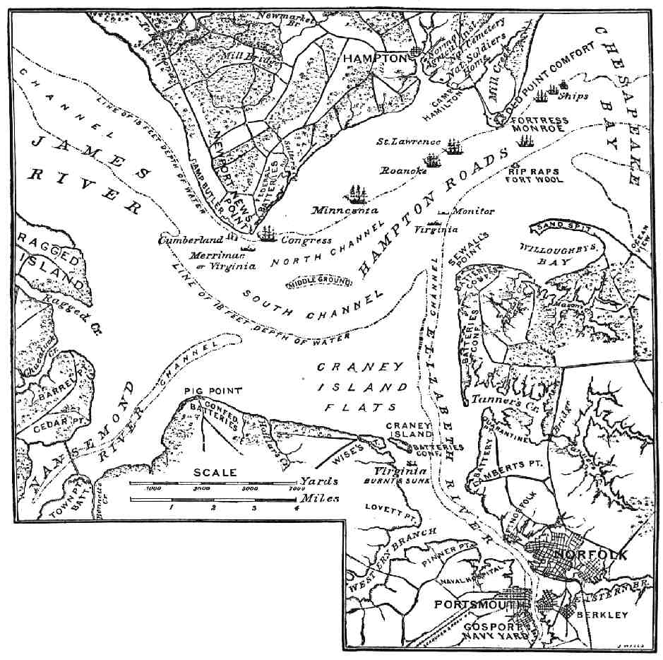 "Map of Hampton Roads and Vicinity." The First Fight of Iron-clads.